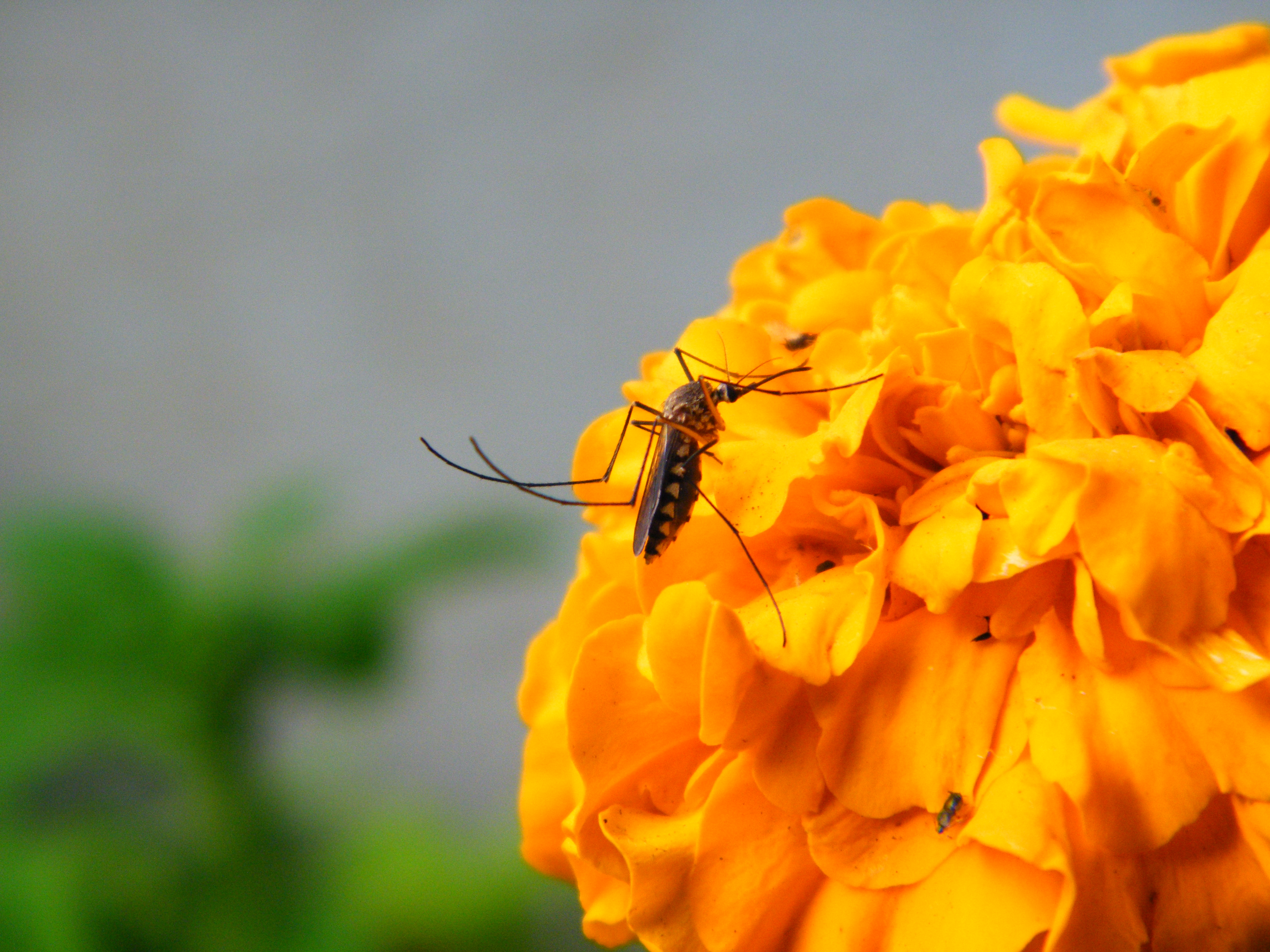 A mosquito feeding on a marigold flower, India.